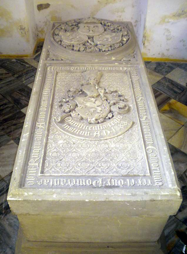 Grave of King Eric the Pomeranian of Denmark, Norway & Sweden at Church of St. Mary’s, as released by image creator Ristesson;Place: Darłowo, Poland